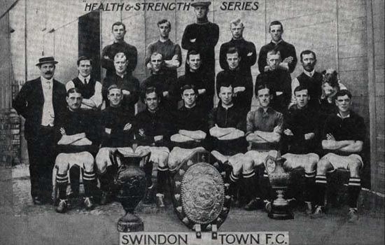 This is an official photograph of Swindon Town F.C. dated to 1911. Its author is anonymous, unknown and unidentifiable. Copyright therefore expired 70 years after first publication, and it is public domain. Back row: Padfield, Kay, Skiller, Walker, Woolford Middle row: Allen (secretary/manager), Warman (asst. trainer), Rushton, Tout, Bannister, Silto, Handley, Wiltshire (trainer) Front row: Jefferson, Fleming, Wheatcroft, Burkinshaw, McCulloch, Bown, Lamb, Bolland Trophies: Dubonnet Cup, Southern League Champions Shield, Southern League Charity Cup